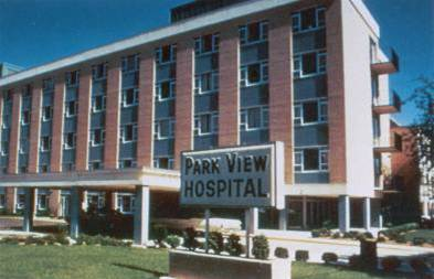 Our first hospital located near downtown Nashville. Picture circa 1968.